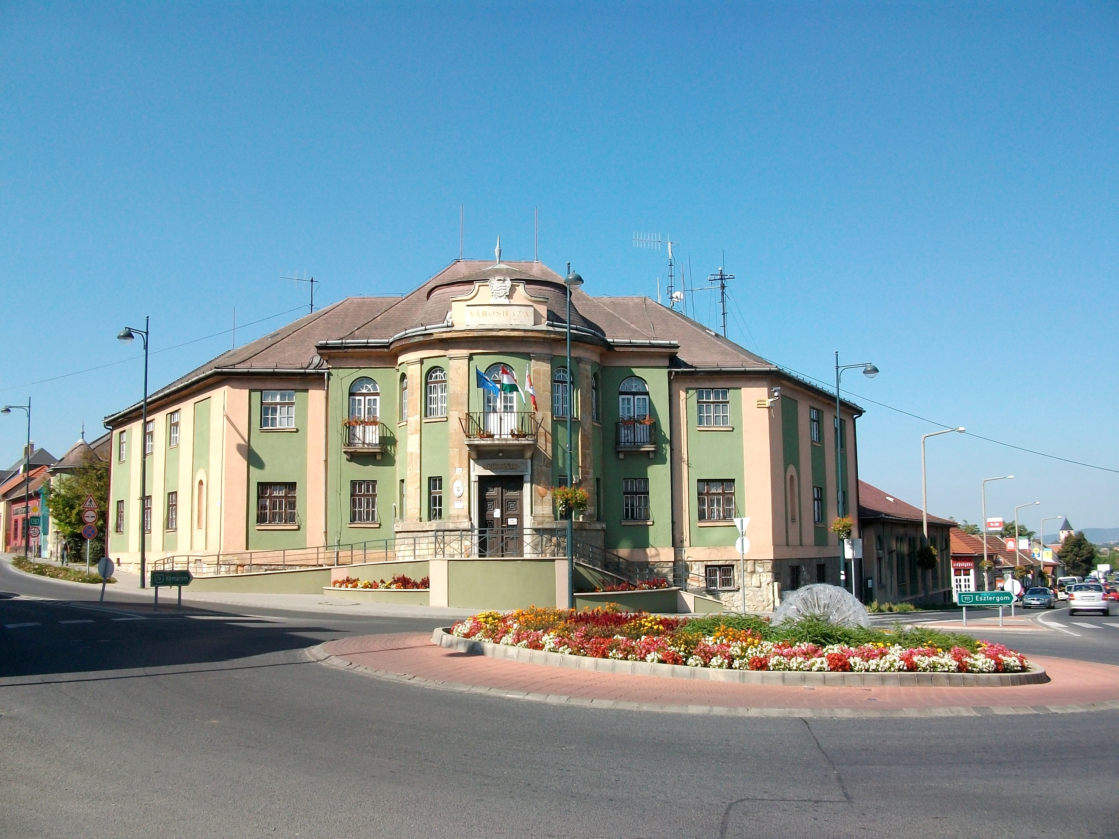 Dorog, Hungary, town hall